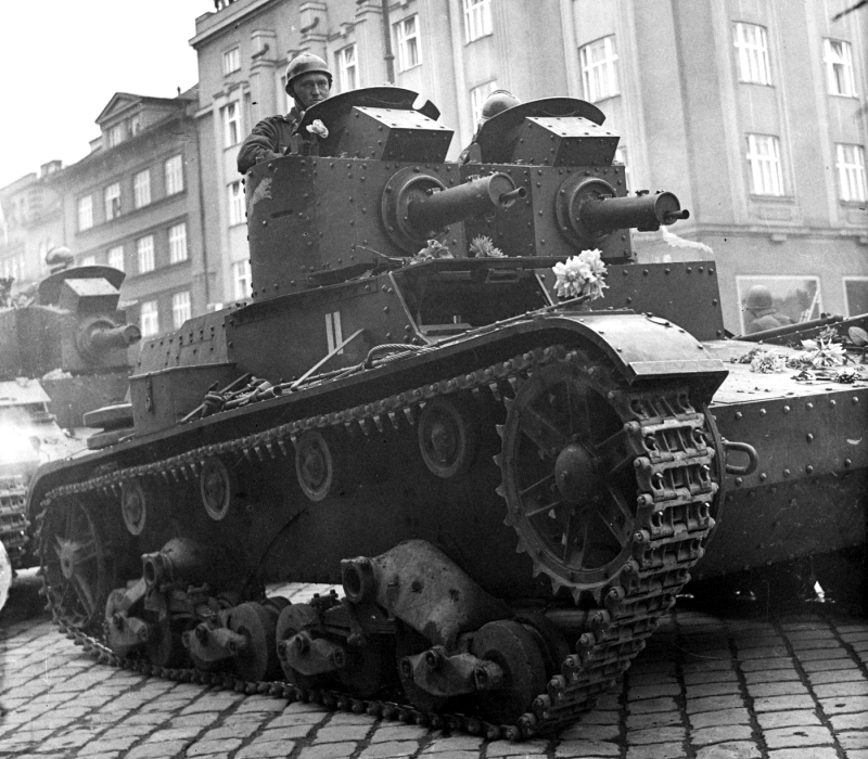 7TP dw. (twin-turreted 7TP) light tank on the march past on Zaolzie in 1938